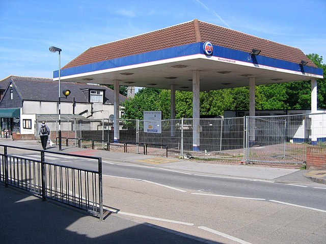 Disused filling station awaiting development, Hornsea, East Riding of Yorkshire, England.